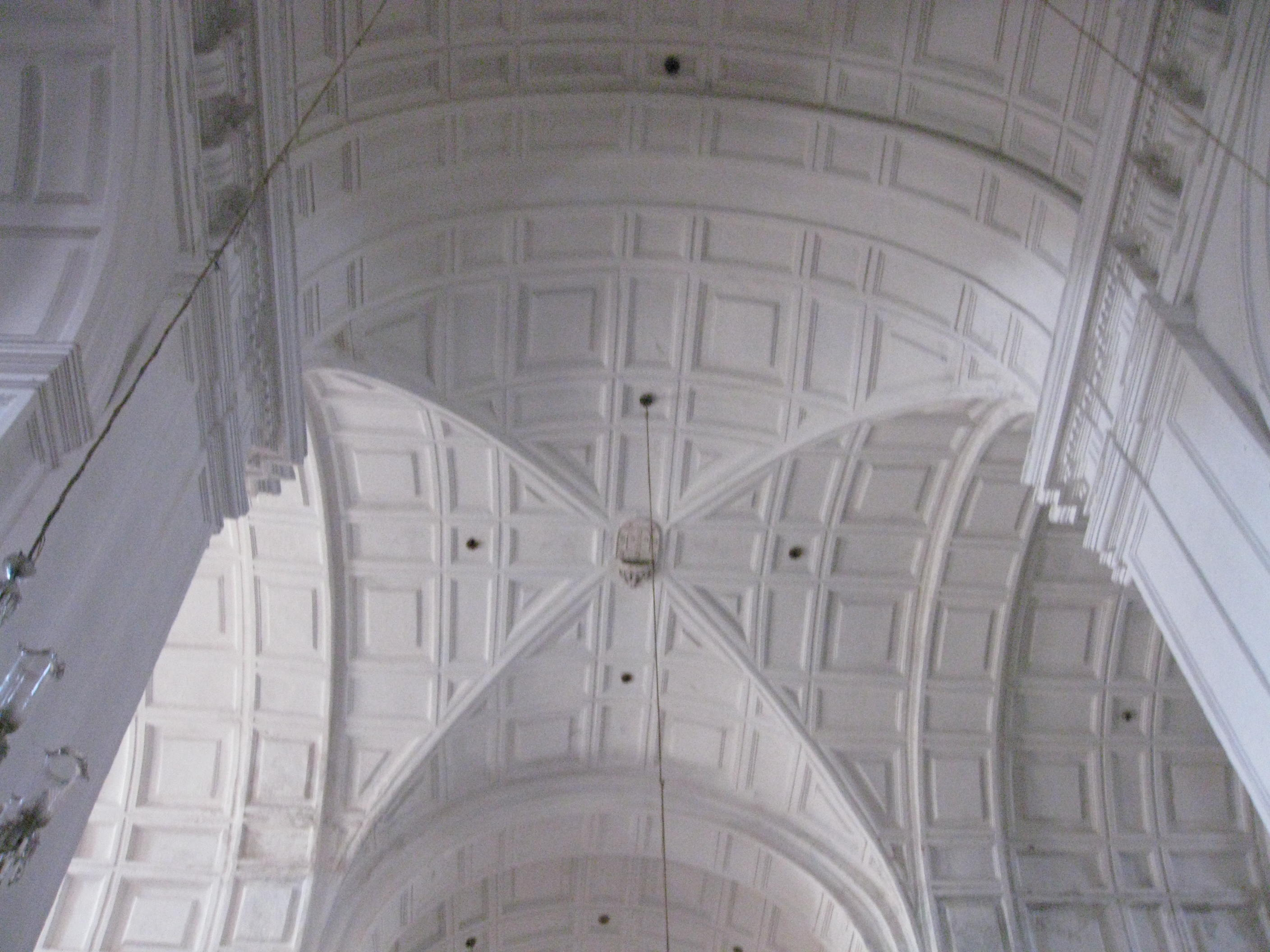 se cathedral goa view by irvin calicut